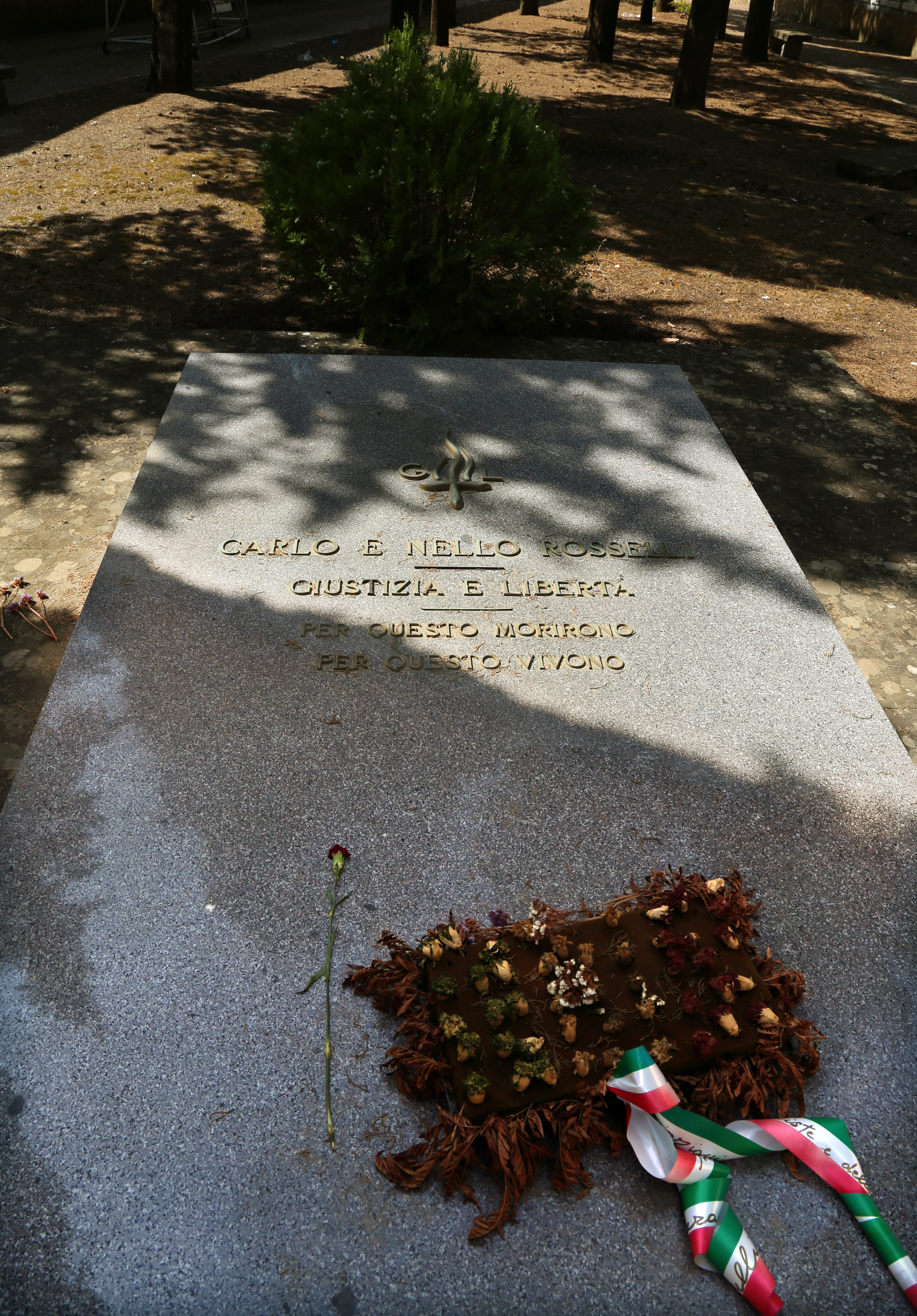 Trespiano cemetery